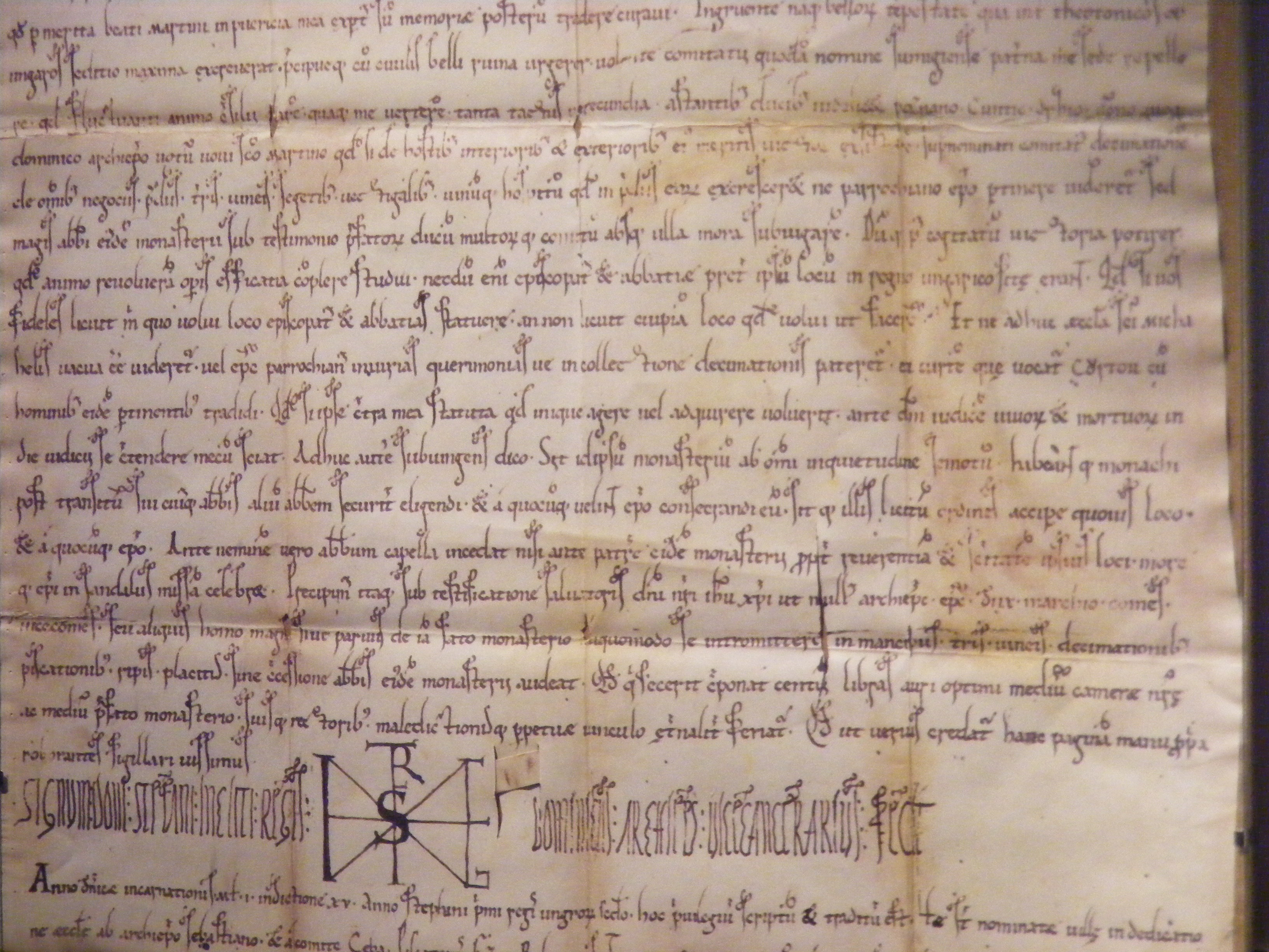 Is a photo about the pannonhalmi oklevél.